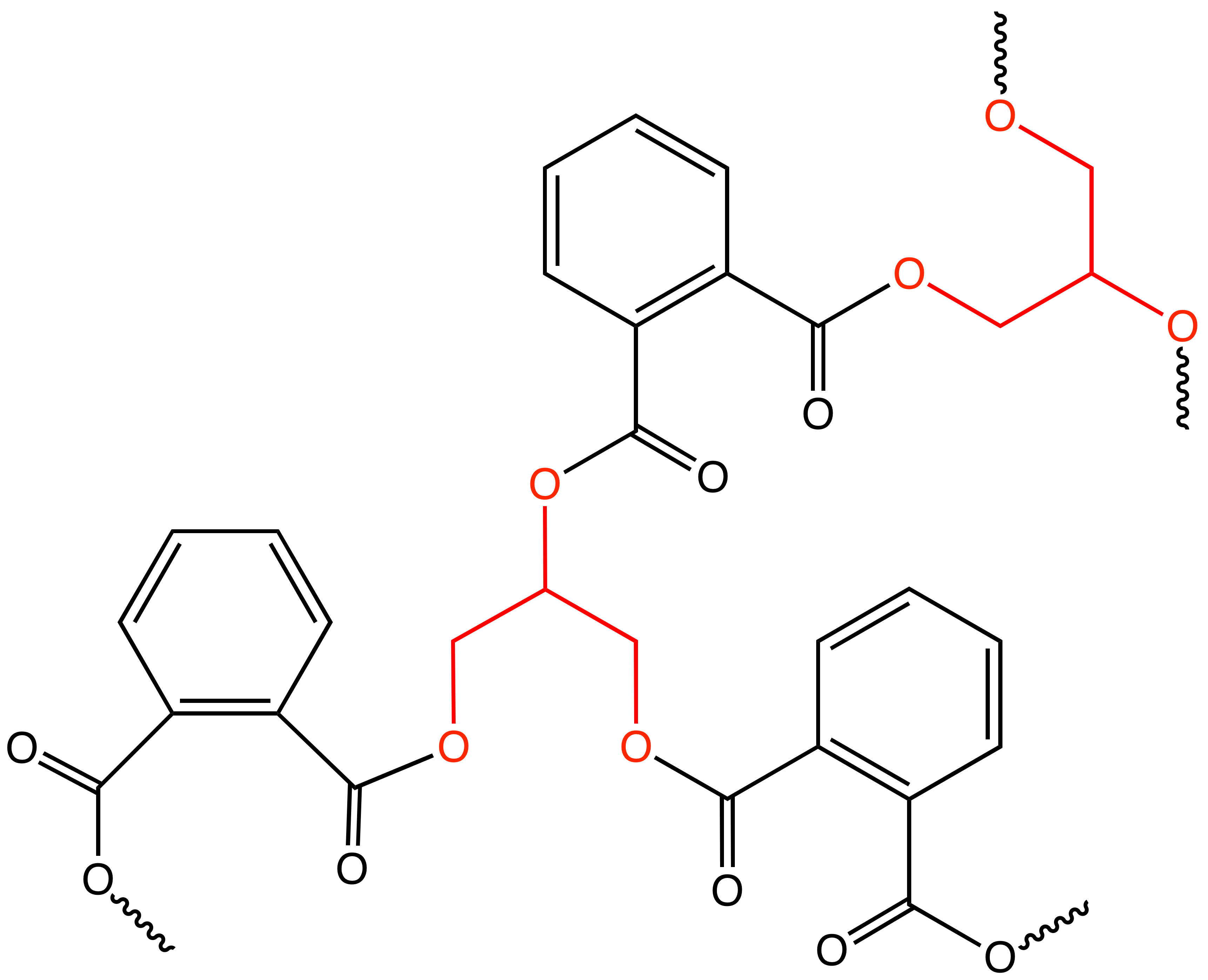 structure of an idealized alkyd resin derived from glycerol and phthalic anhydride